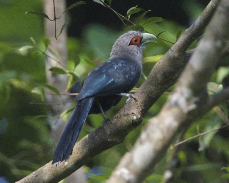 Chestnut-bellied Malkoha Phaenicophaeus sumatranus Pierce Reservoir, Singapore 26th. April 2009 690V4924